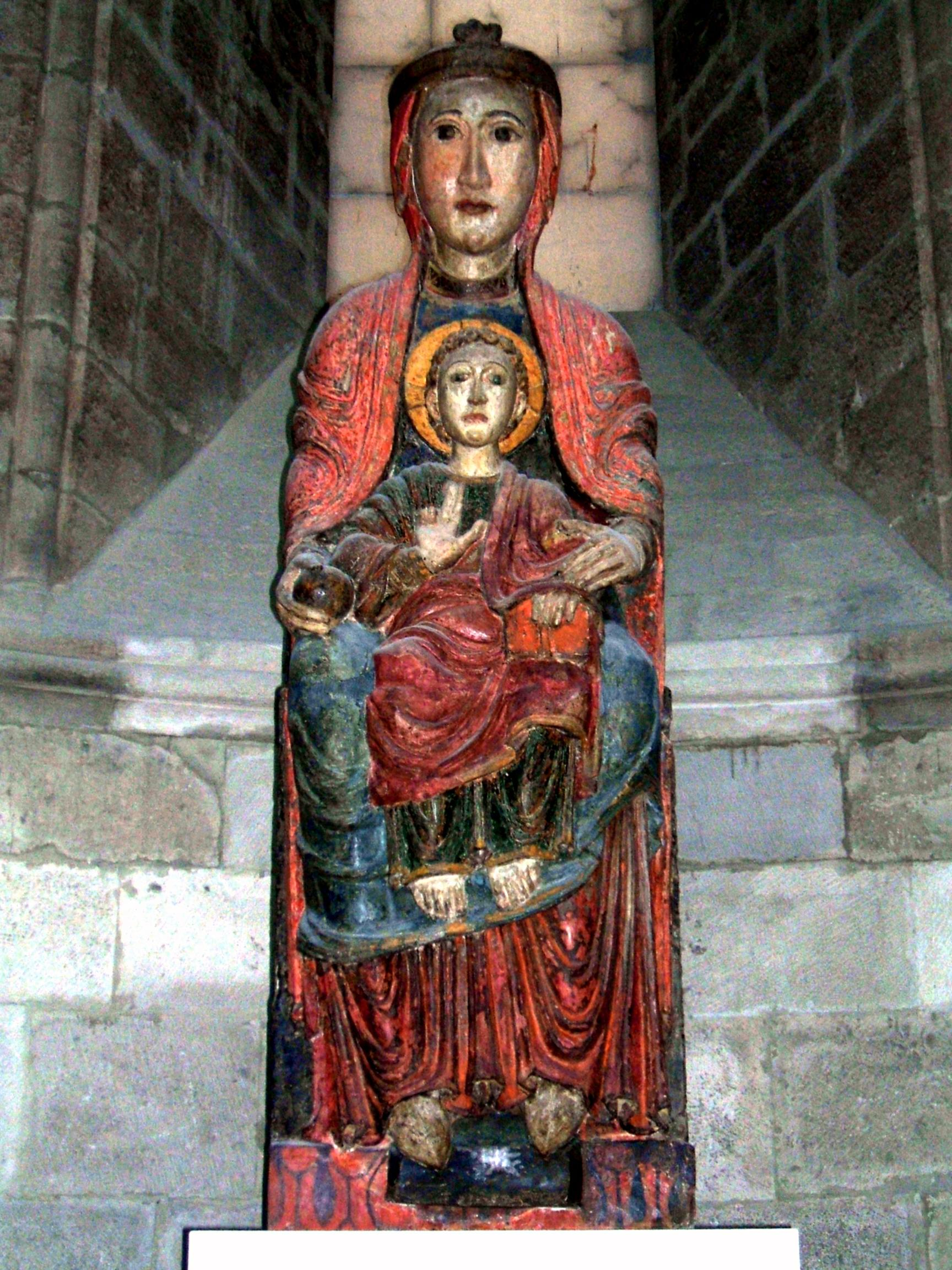 Virgen Blanca de la Catedral de Tudela (Navarra, España)